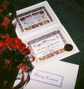 A Kesubah (traditional Jewish wedding document)